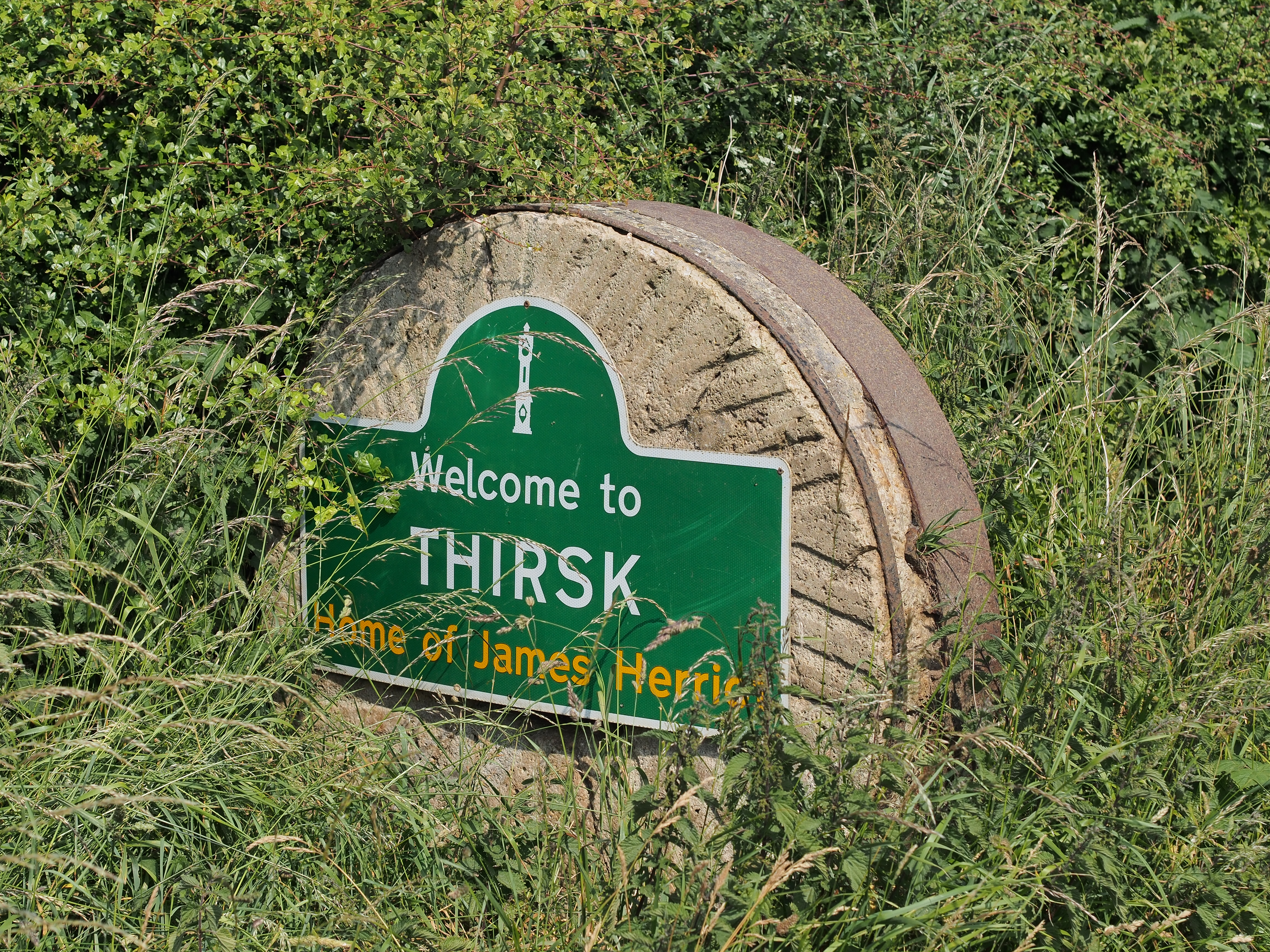 Sign at entrance to Thirsk